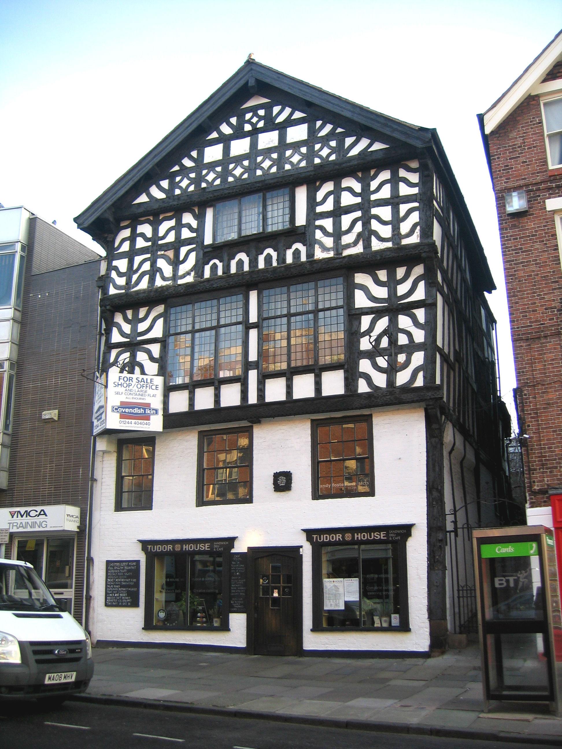 Photograph of Tudor House, Chester